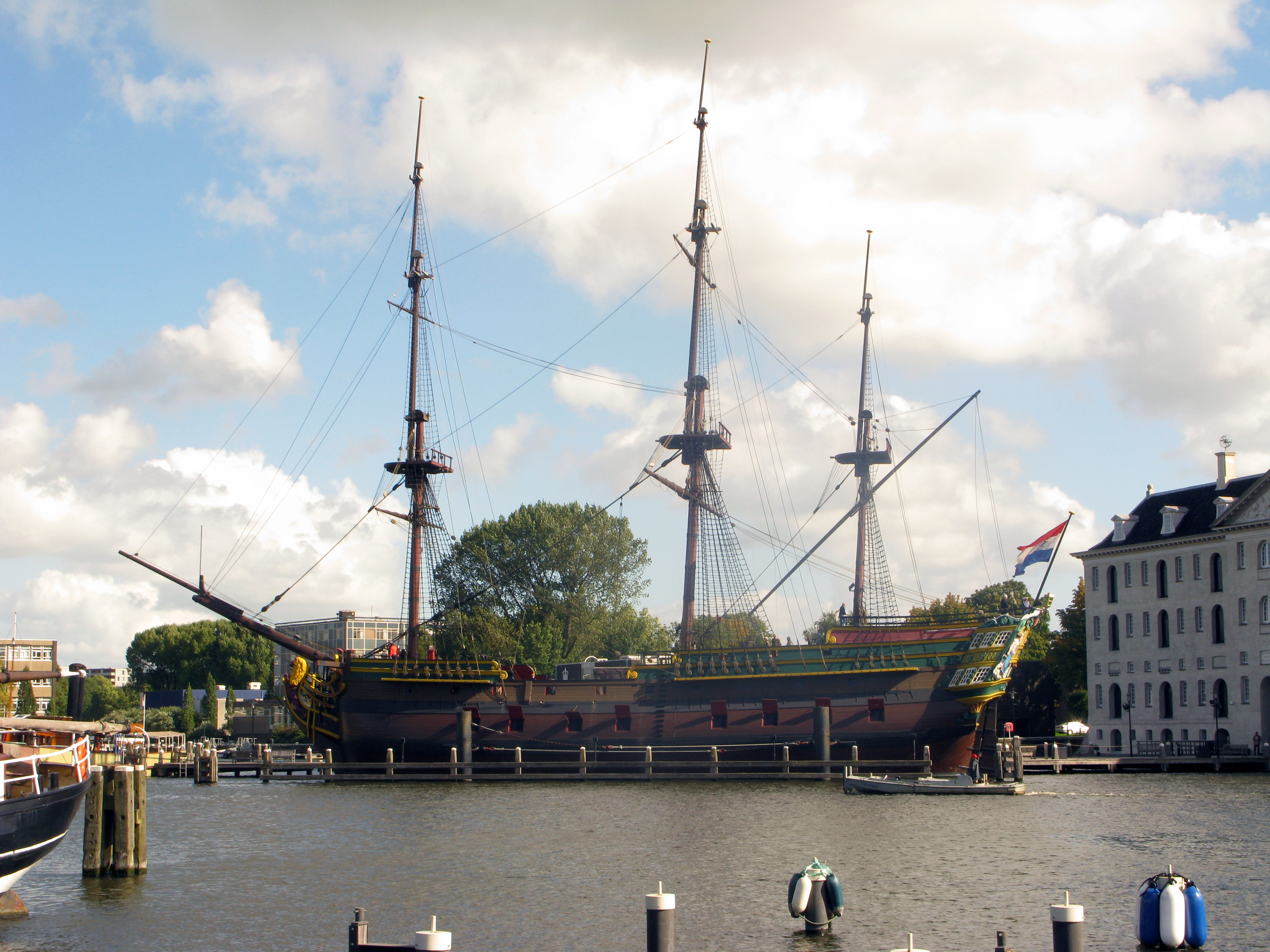 Ship 'The Amsterdam' built in 1990, replica of a 18th century ship of the Dutch East India Company